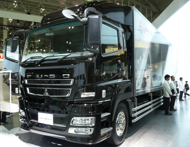 Mitsubishi Fuso Super Great.